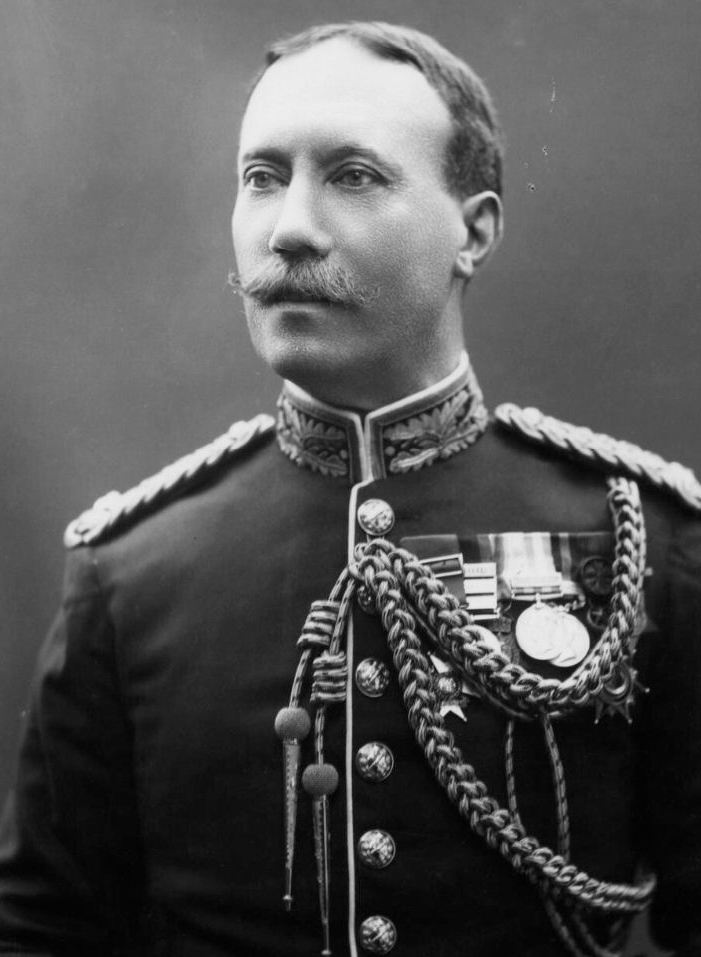 William Nicholson, 1st Baron Nicholson, 1898.